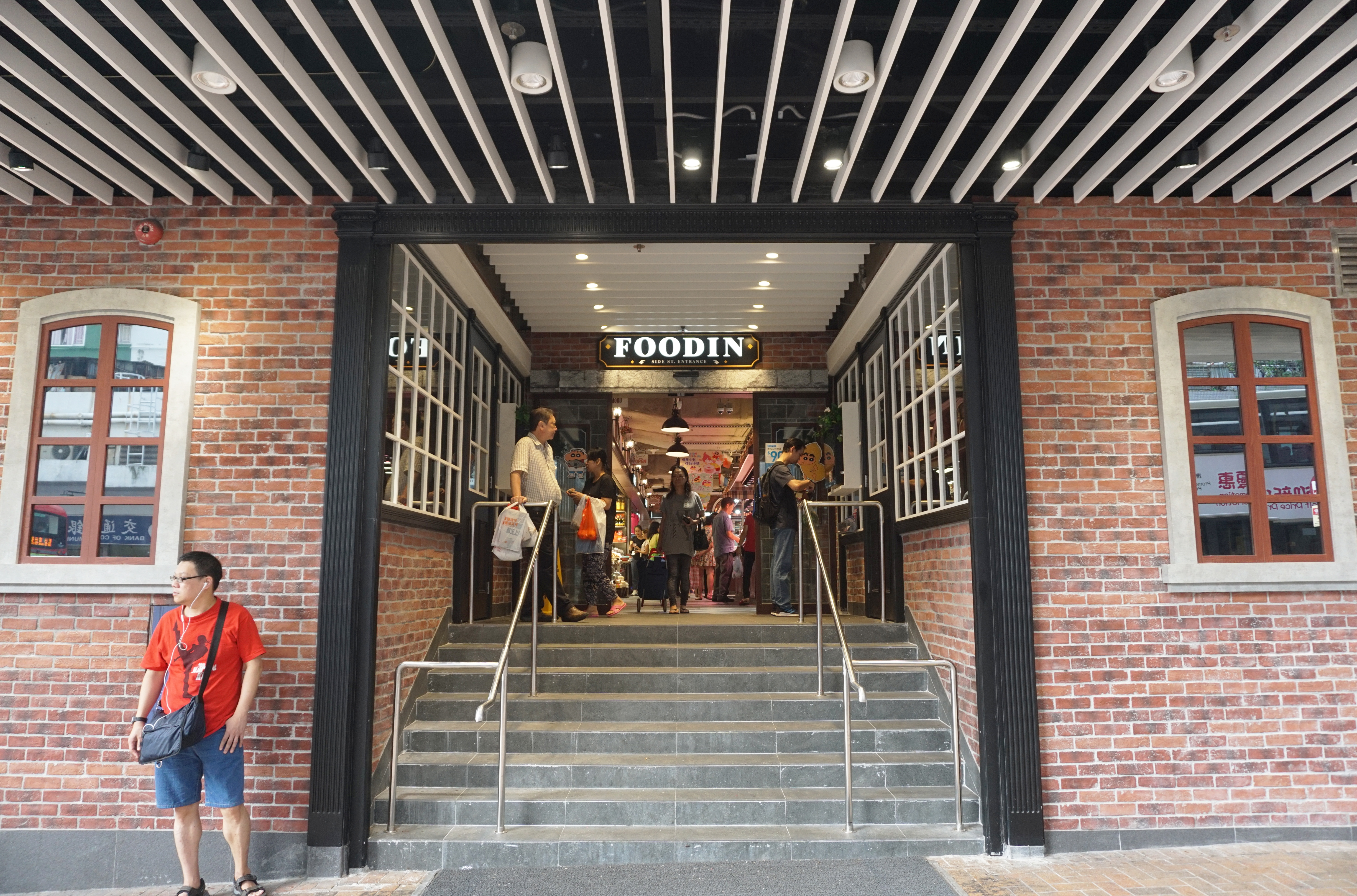 FOODIN in Lam Tin, Hong Kong.